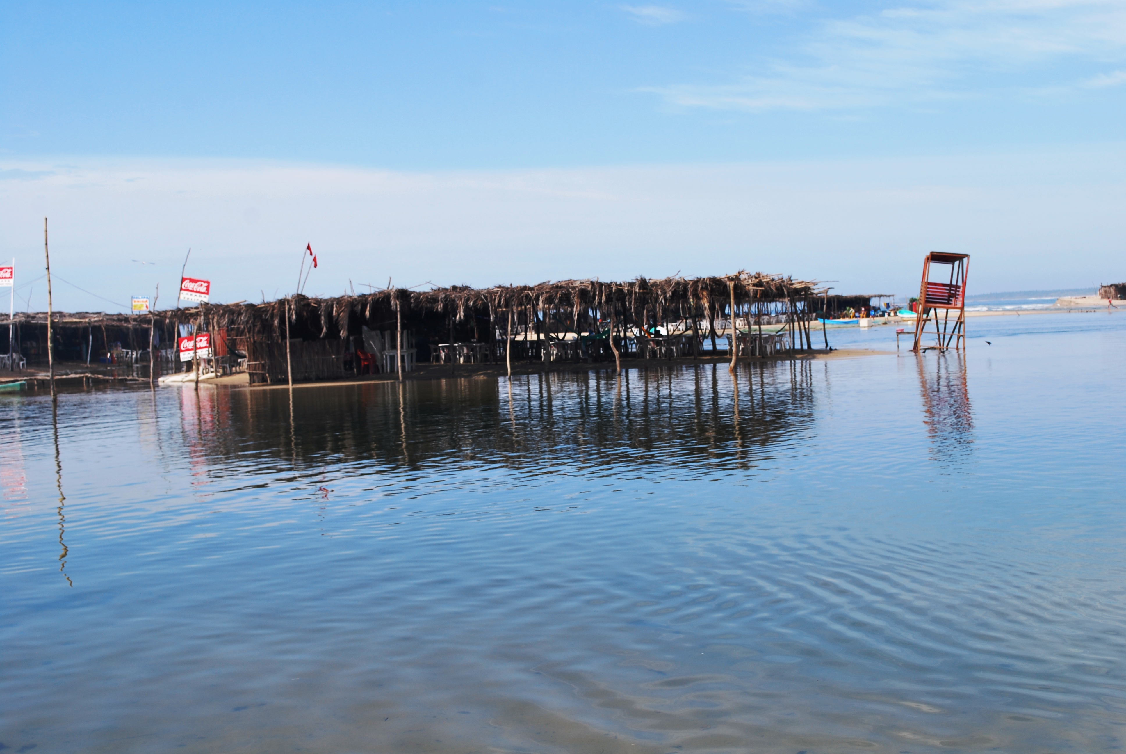 One of the many palapa restaurants at La Bocana, Marquelia, Guerrero